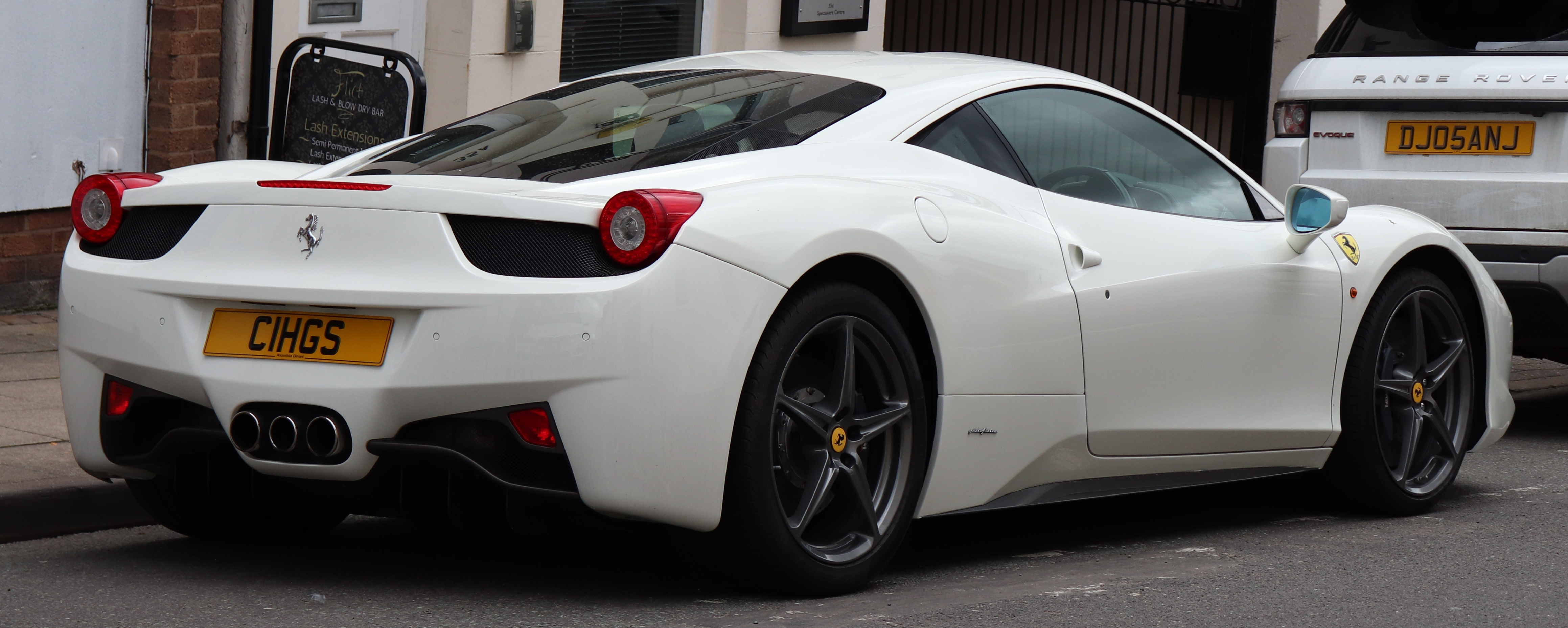 2011 Ferrari 458 Italia DCT S-A 4.5 Rear Taken in Leamington Spa